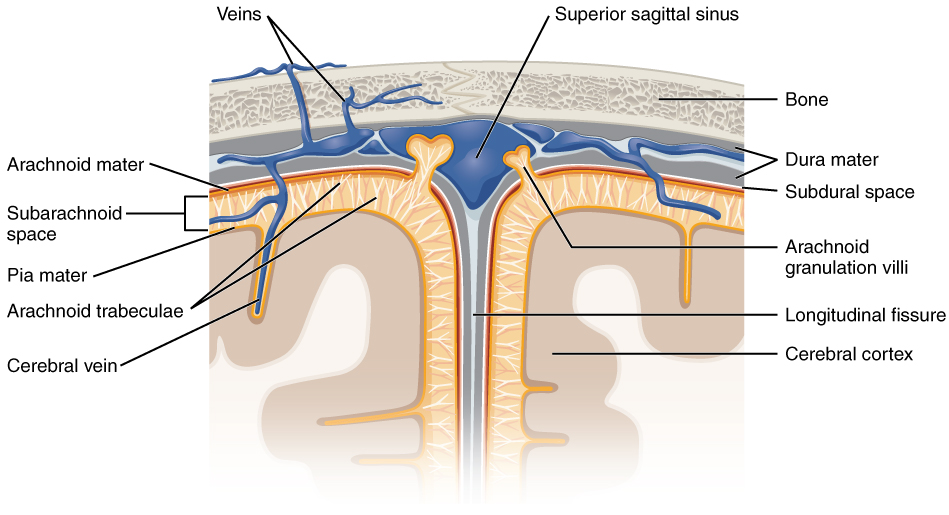 Version 8.25 from the Textbook OpenStax Anatomy and Physiology Published May 18, 2016